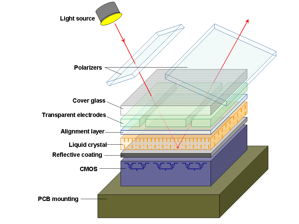 LCoS (Liquid crystal on silicon ) Microdevice scheme